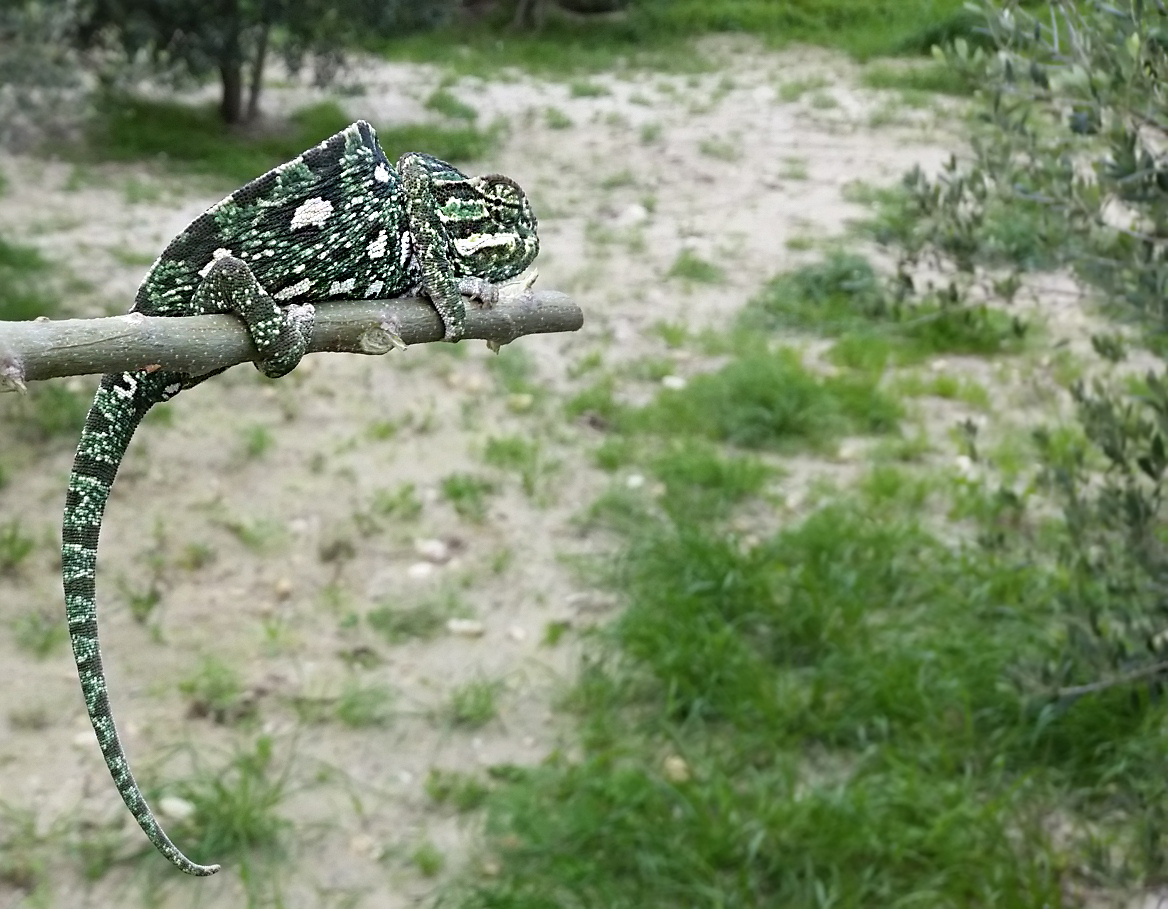 Mediterranean Chameleon in Malta spotted in an olive grove.